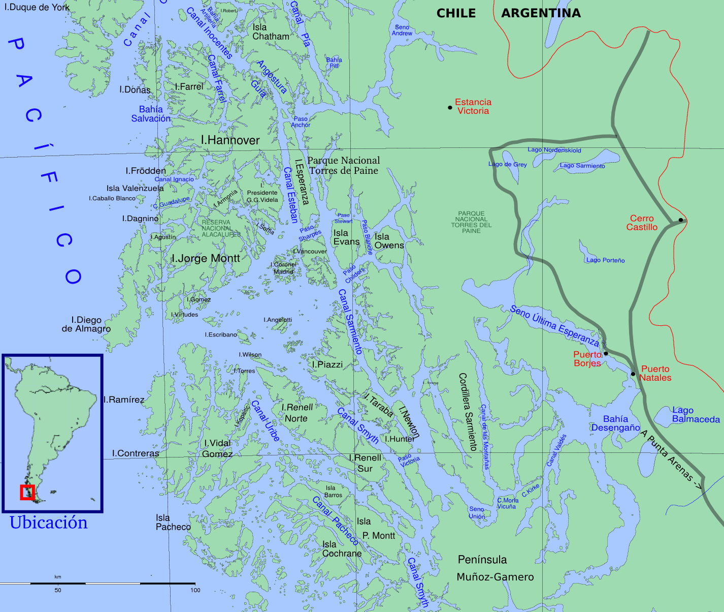 Canal Sarmiento, Chile, North of Strait ofMagellan